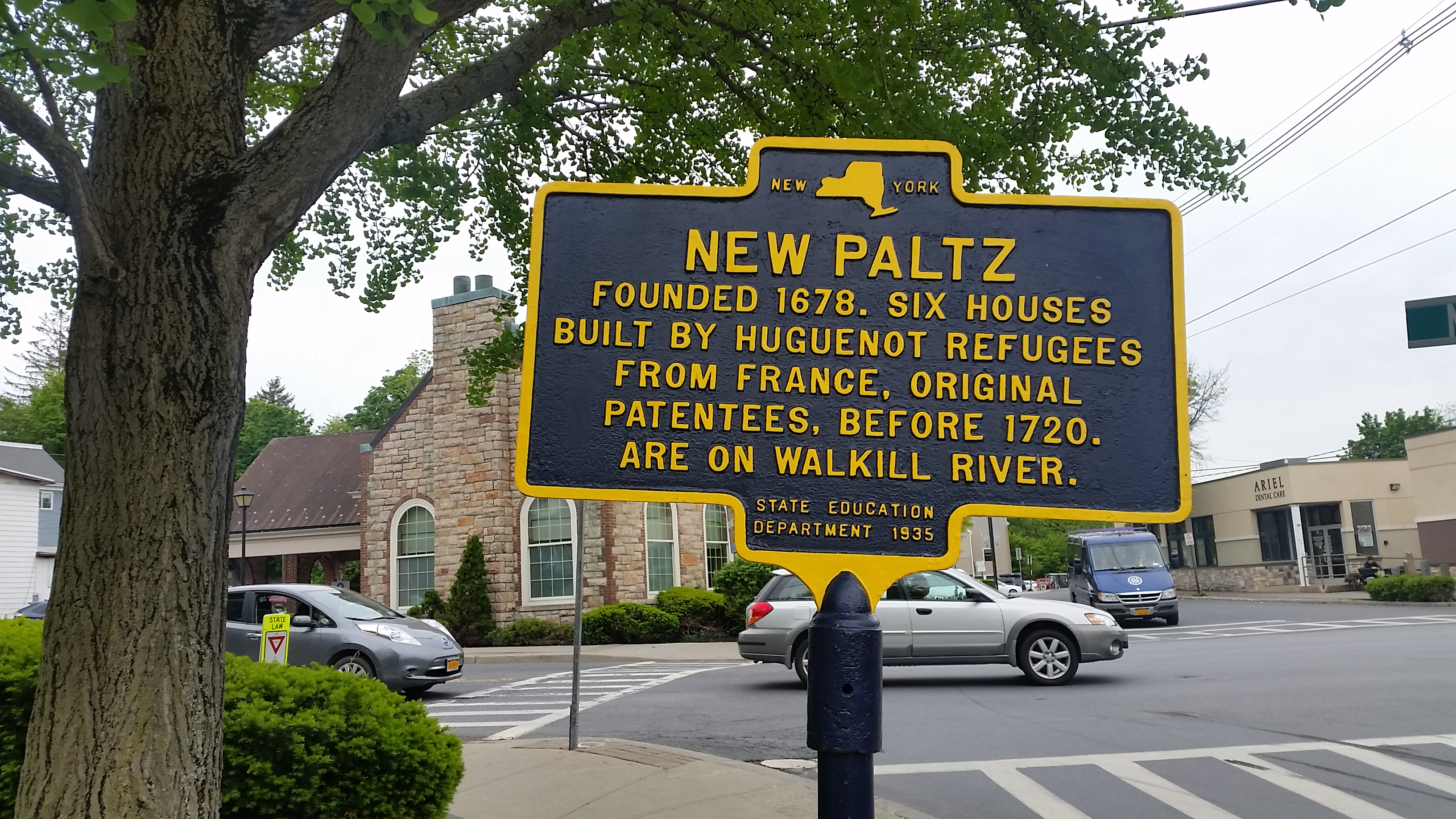 NY State historical marker for New Paltz, NY (the one in front of the Elting library)